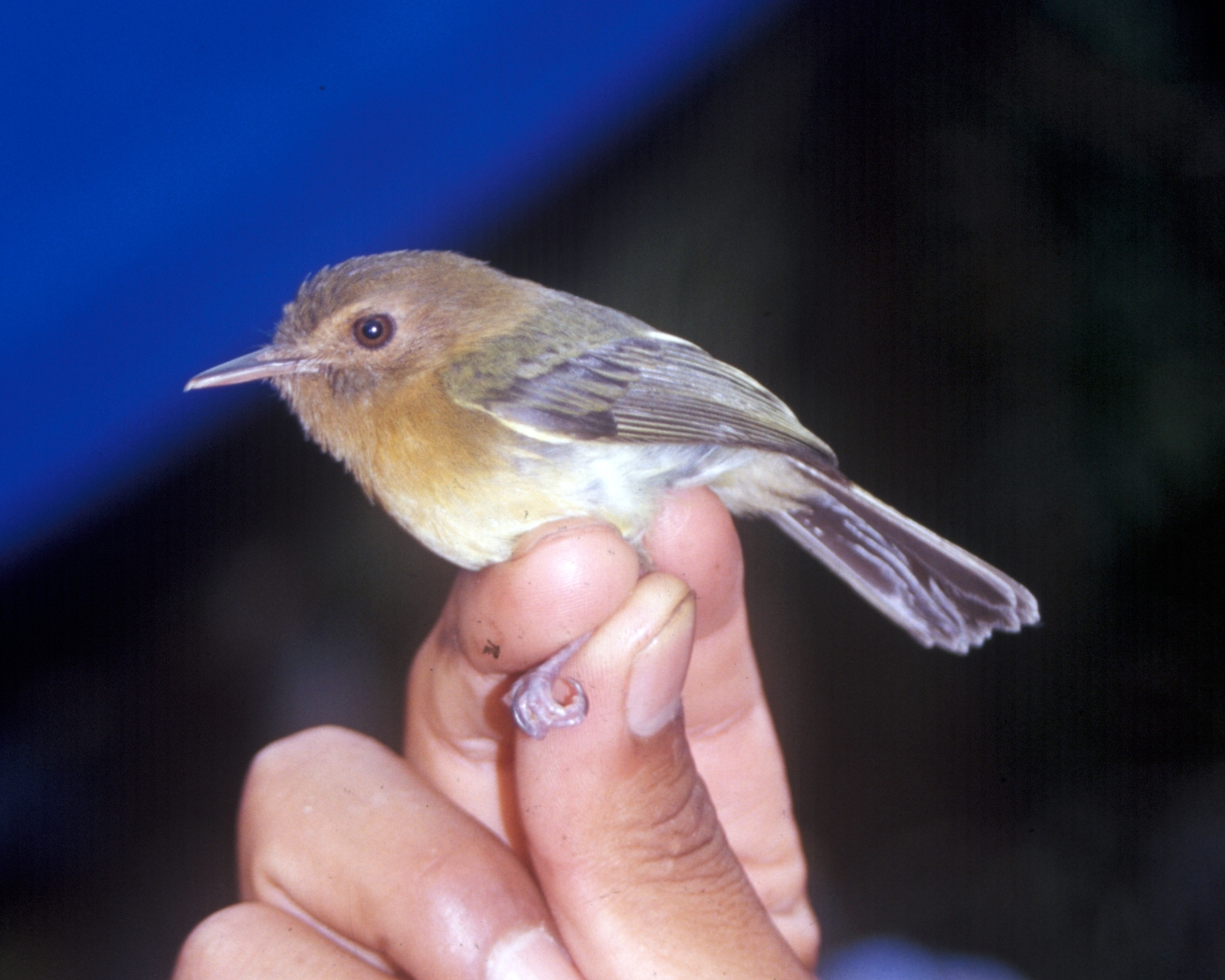 Cinnamon-breasted Tody-tyrant (Hemitriccus cinnamomeipectus)